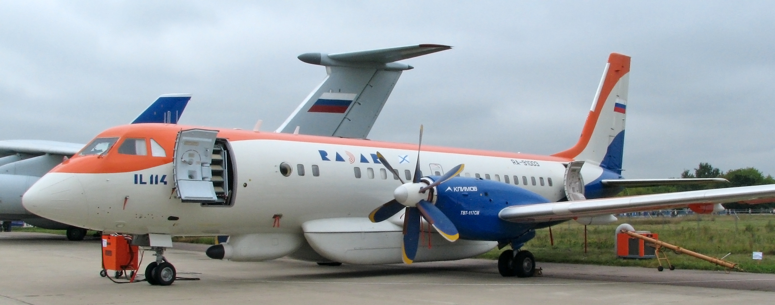 Ilyushin Il 114 (The international aerospace salon MAKS-2009)